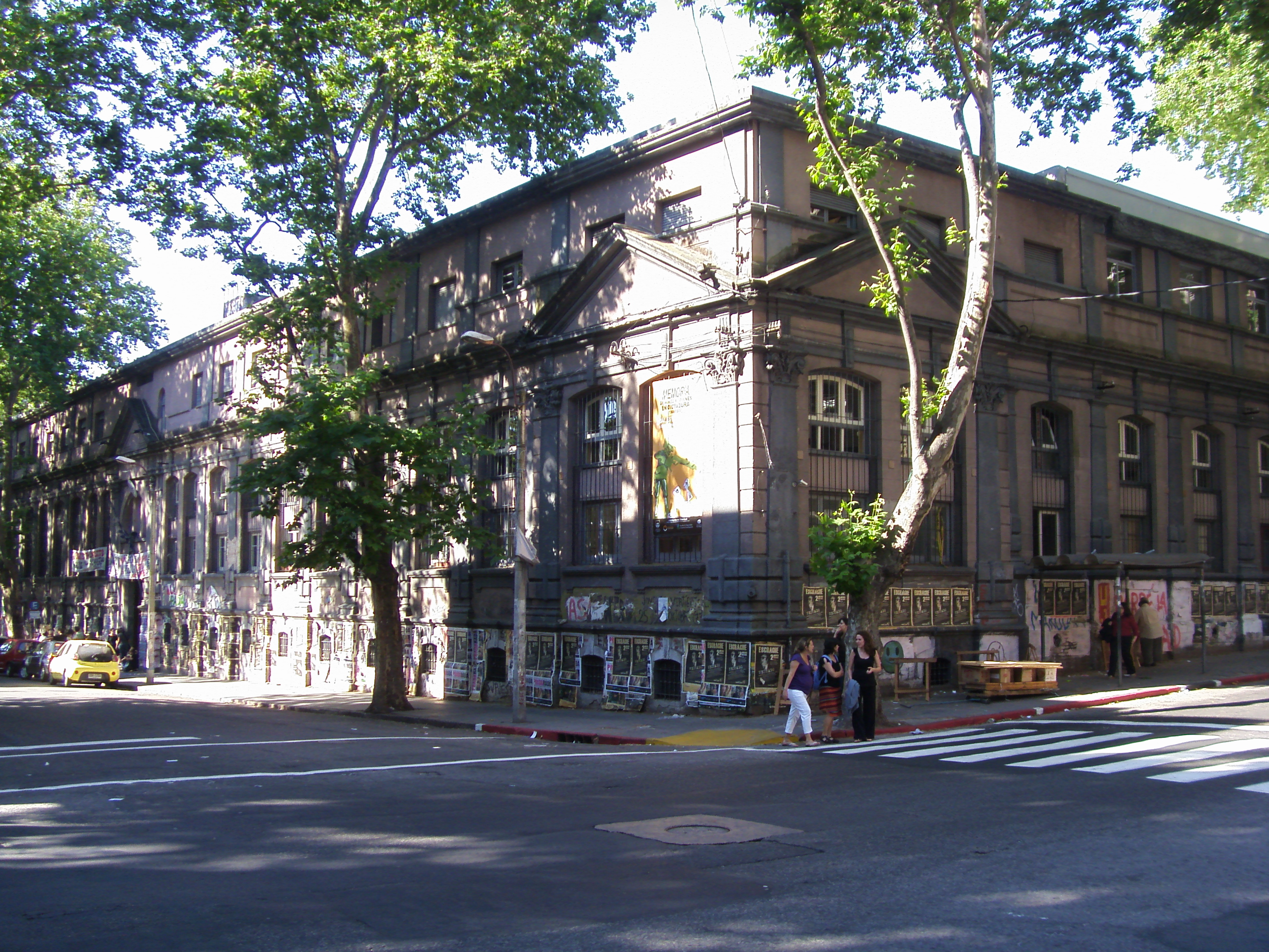 Facultad de Psicología (College of Psychology) of the Universidad de la República (University of the Republic), Montevideo, Uruguay.